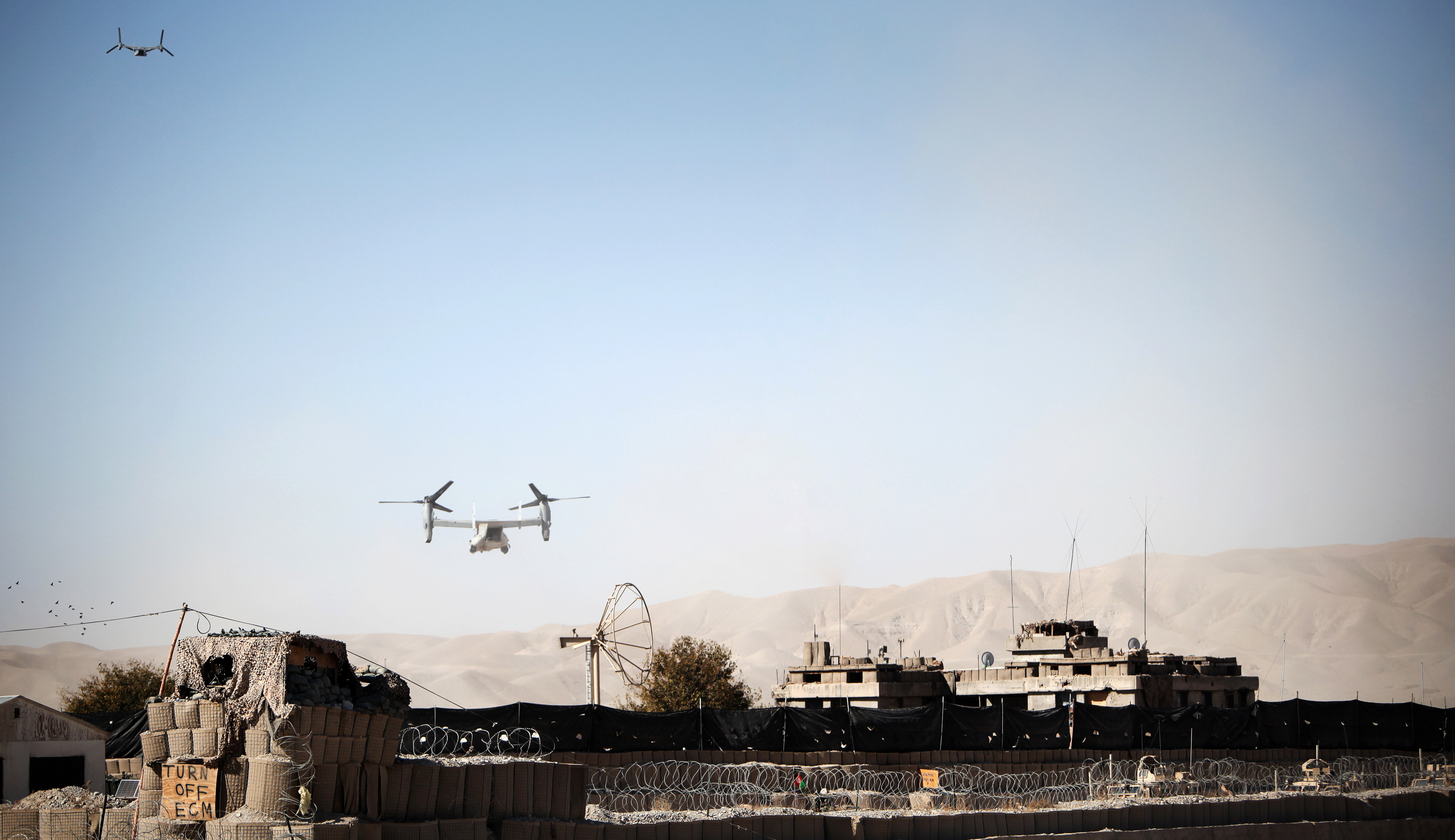 An MV-22B Osprey with Marine Medium Tiltrotor Squadron (VMM) 161, 3rd Marine Aircraft Wing (Forward), takes off from Forward Operating Base Jackson, Afghanistan, Nov. 7, 2012. VMM-161 moved troops and cargo to and from the battle space supporting various missions. (U.S. Marine Corps photo by Lance Cpl. Alexander Quiles)